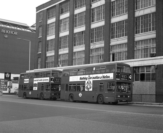 Buses in Old Street, East London, near to Shoreditch, Islington, Great Britain. Two 'Titan' double-deckers await time for their long return journey on Route 5 from Old Street to Becontree Heath in Essex.